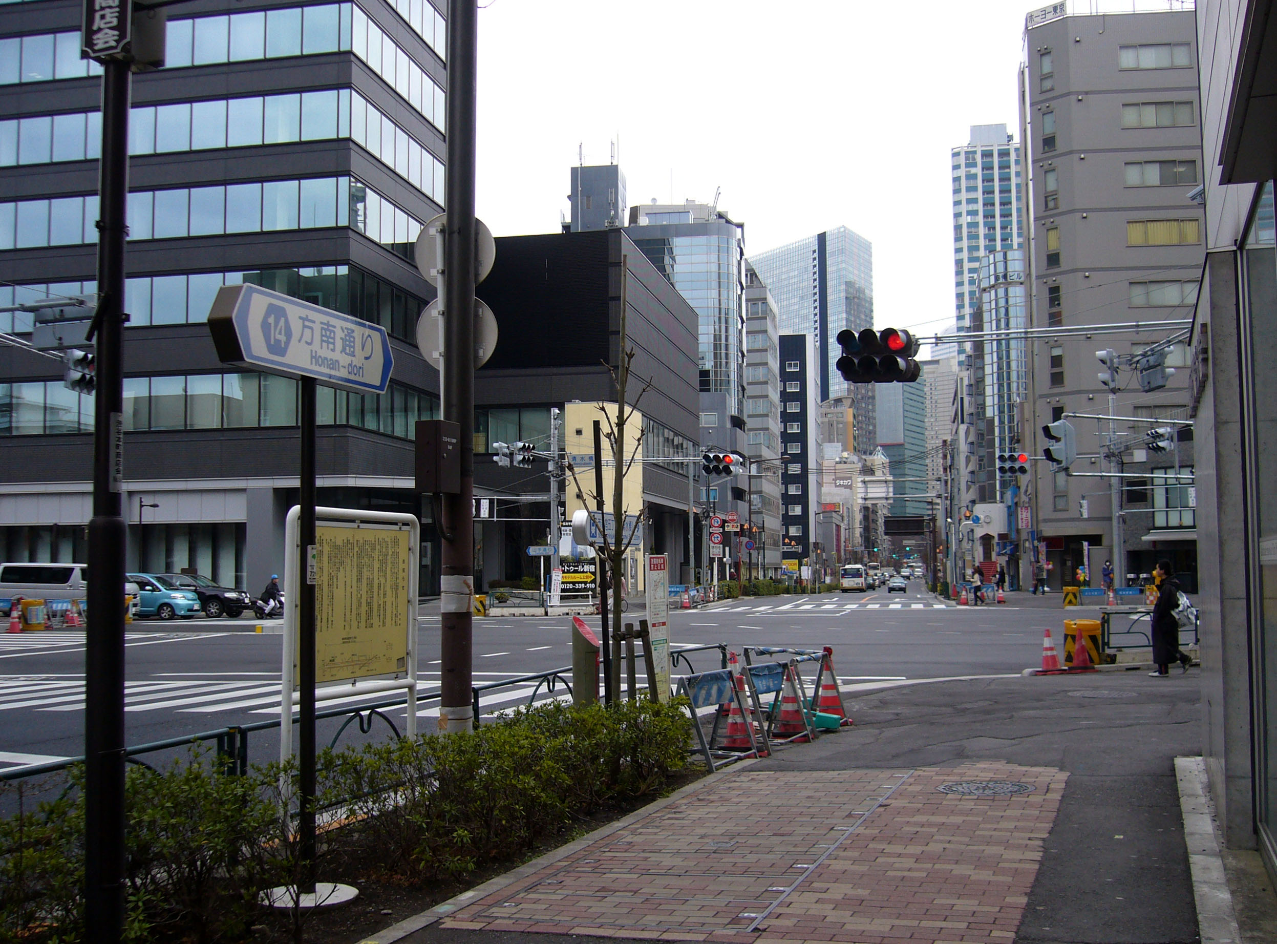 Shimizubashi intersection (Tokyo, Japan) where Tokyo prefectural road route 14 starts